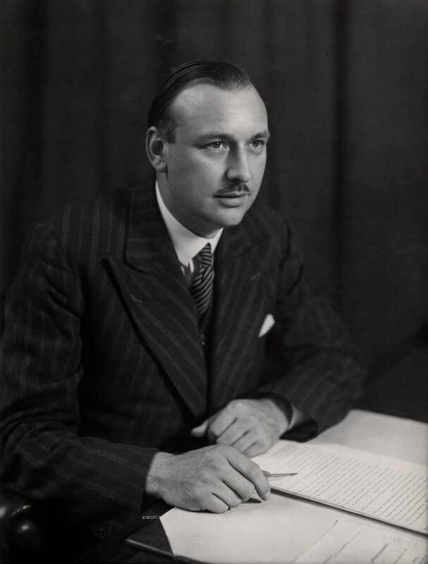 Alfred Robens, Baron Robens of Woldingham